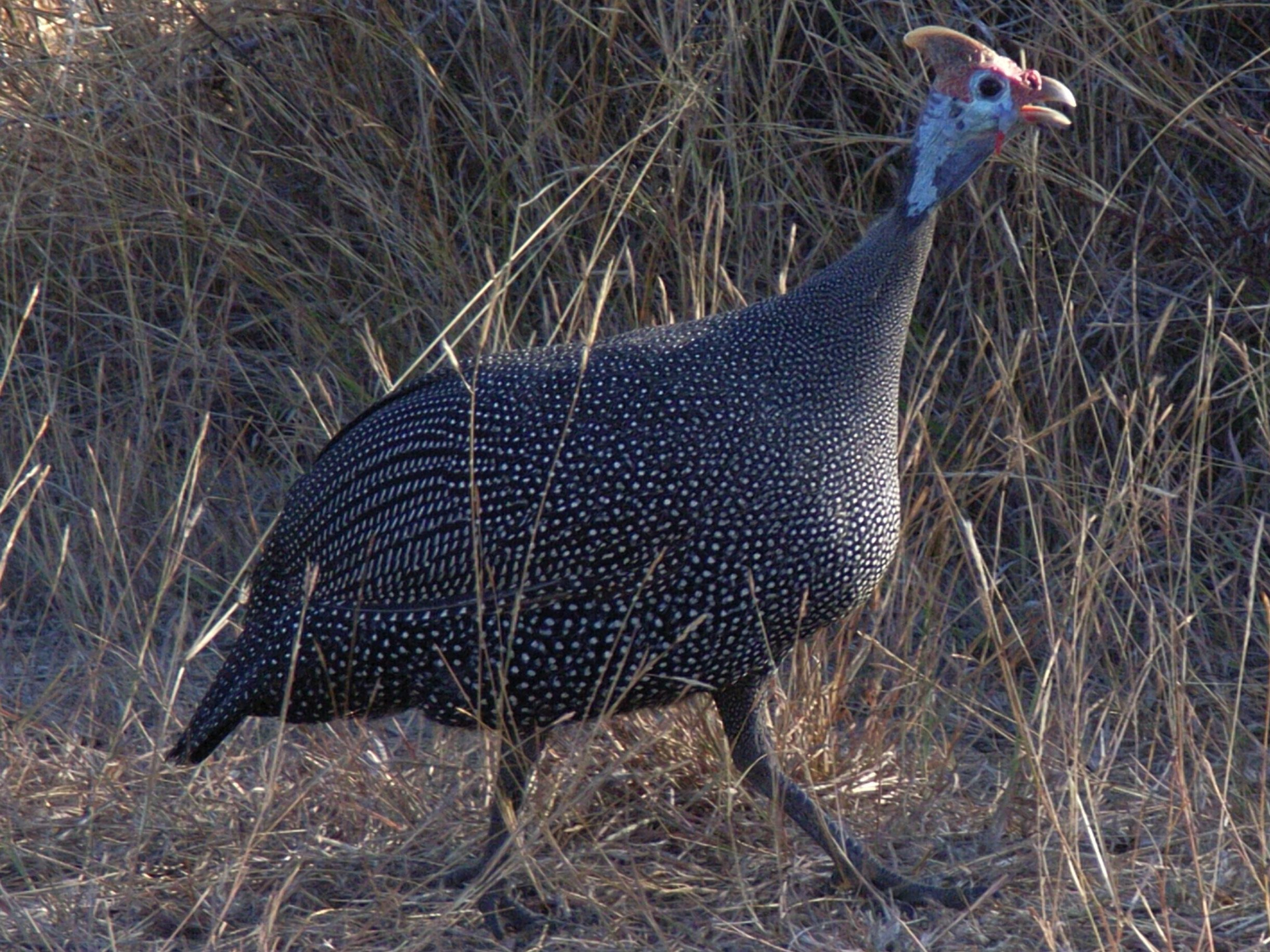 Photo of a helmeted guineafowl. Photo taken in Kruger Park, South Africa using a Ricoh Caplio R4 camera.